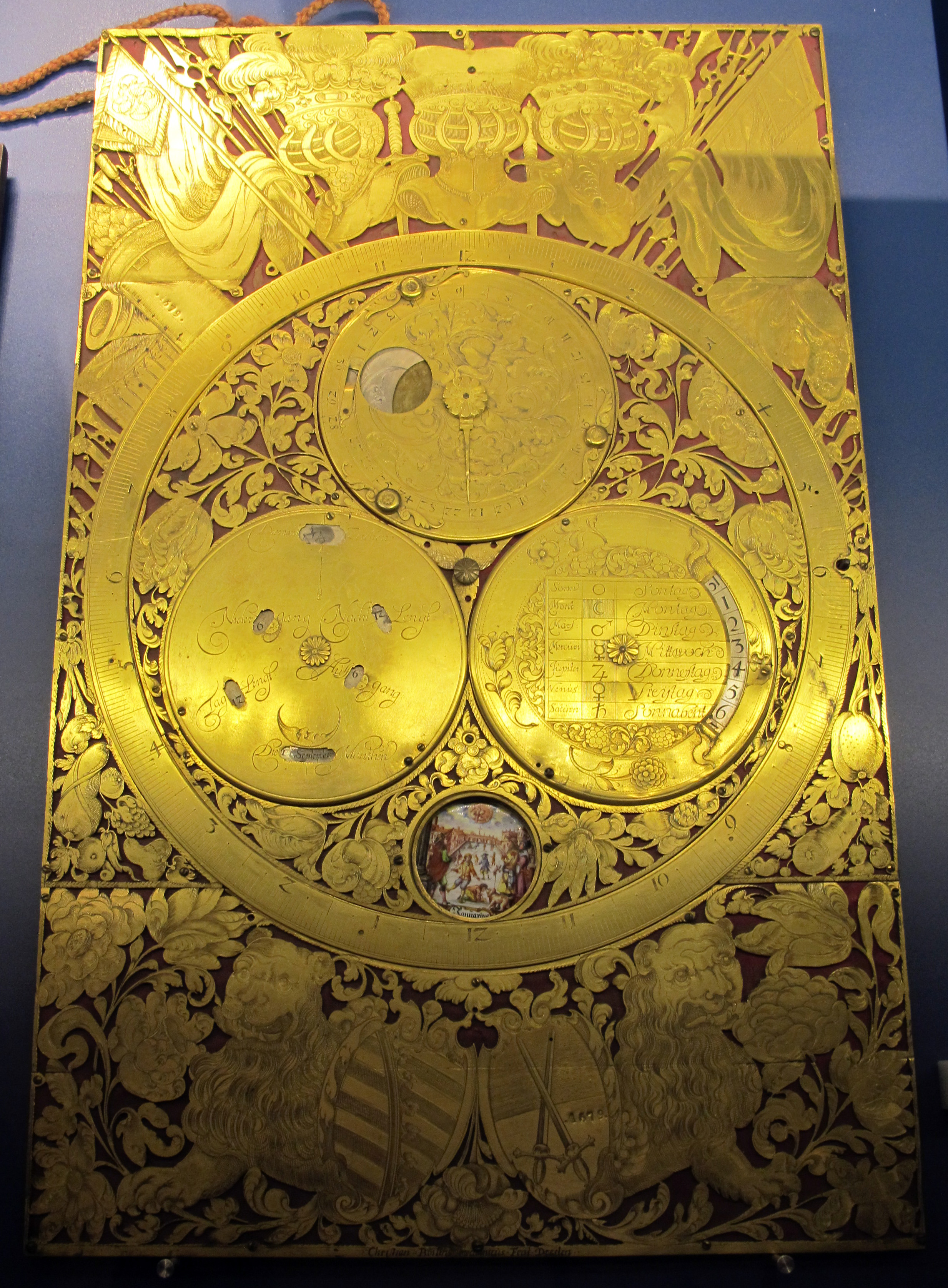 Perpetual calendar.